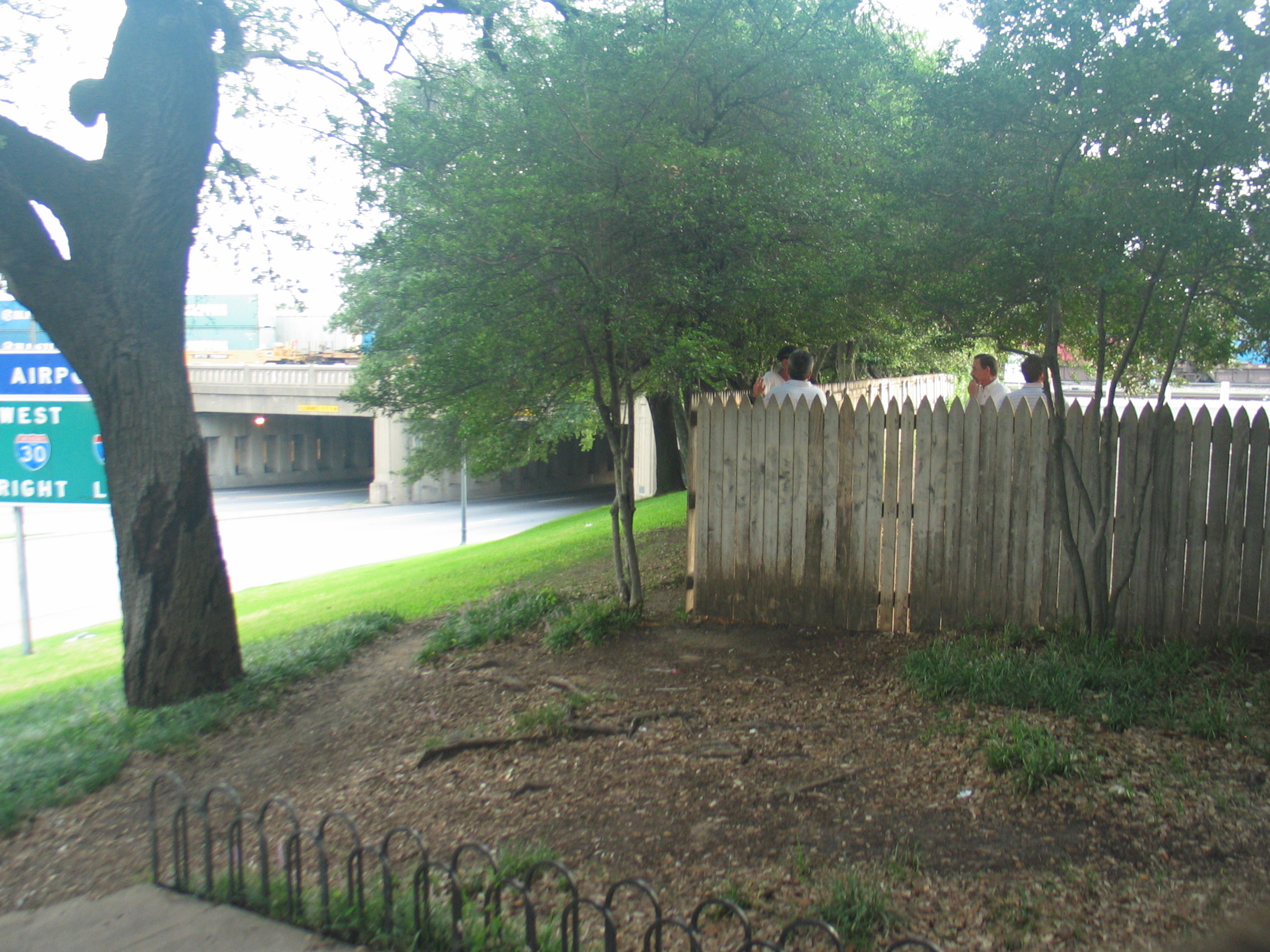 Pictured is the western half of the grassy knoll along the north side of Elm Street in Dealey Plaza, Dallas, Texas. In the background is the railroad overpass known as the Triple Underpass. To the right is a picket fence, one leg of which connects with the Triple Underpass, and the other which extends about twenty feet off the right side of the photograph. At the bottom of the photograph is the walk that leads from a stairway up the knoll to the parking lot behind the picket fence. The photographer was standing on a retaining wall at the southwest corner of a pergola on the knoll, the same position from which Abraham Zapruder filmed the assassination of President Kennedy in 1963.